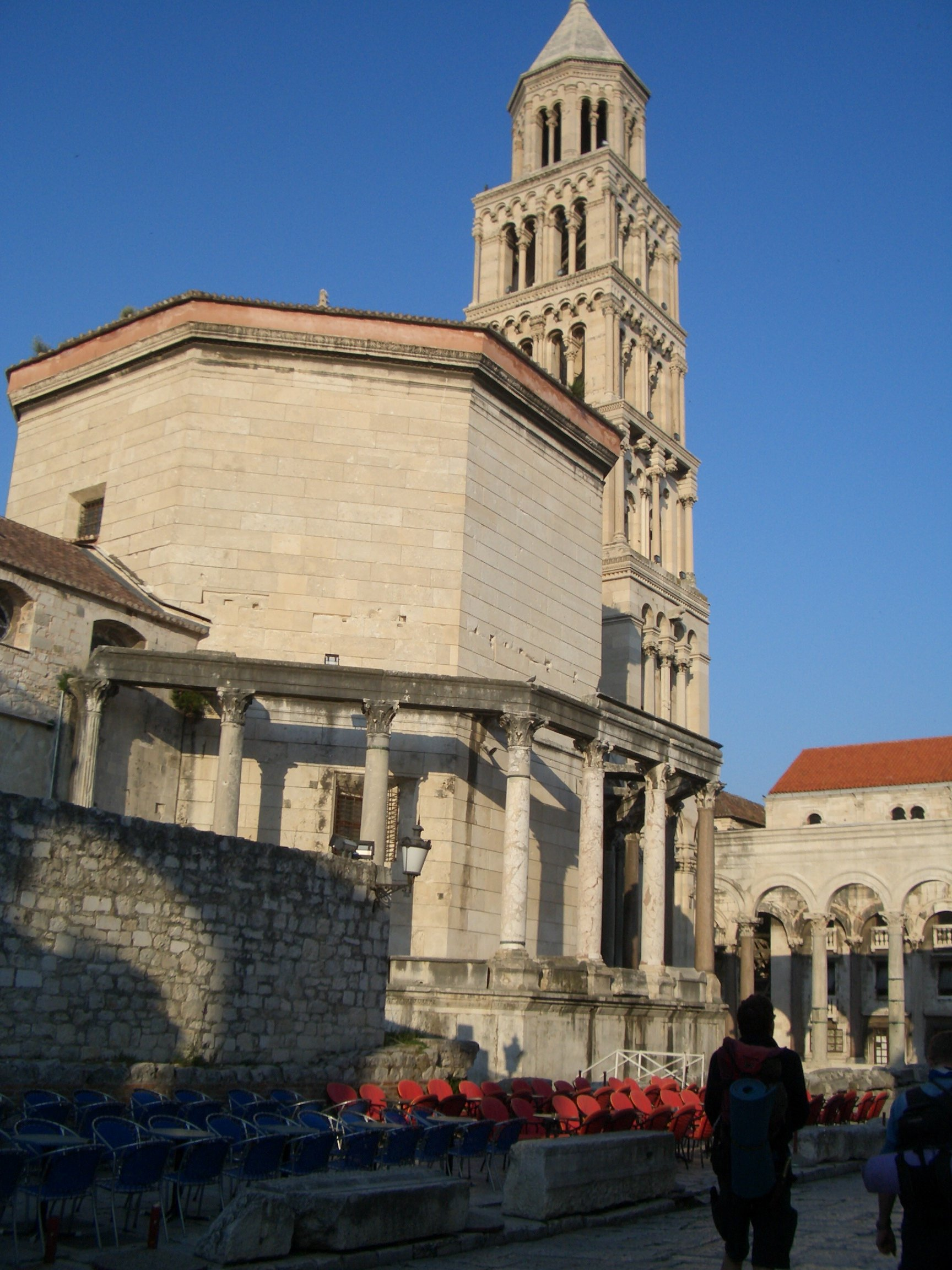 Tower of Sveti Duje Split